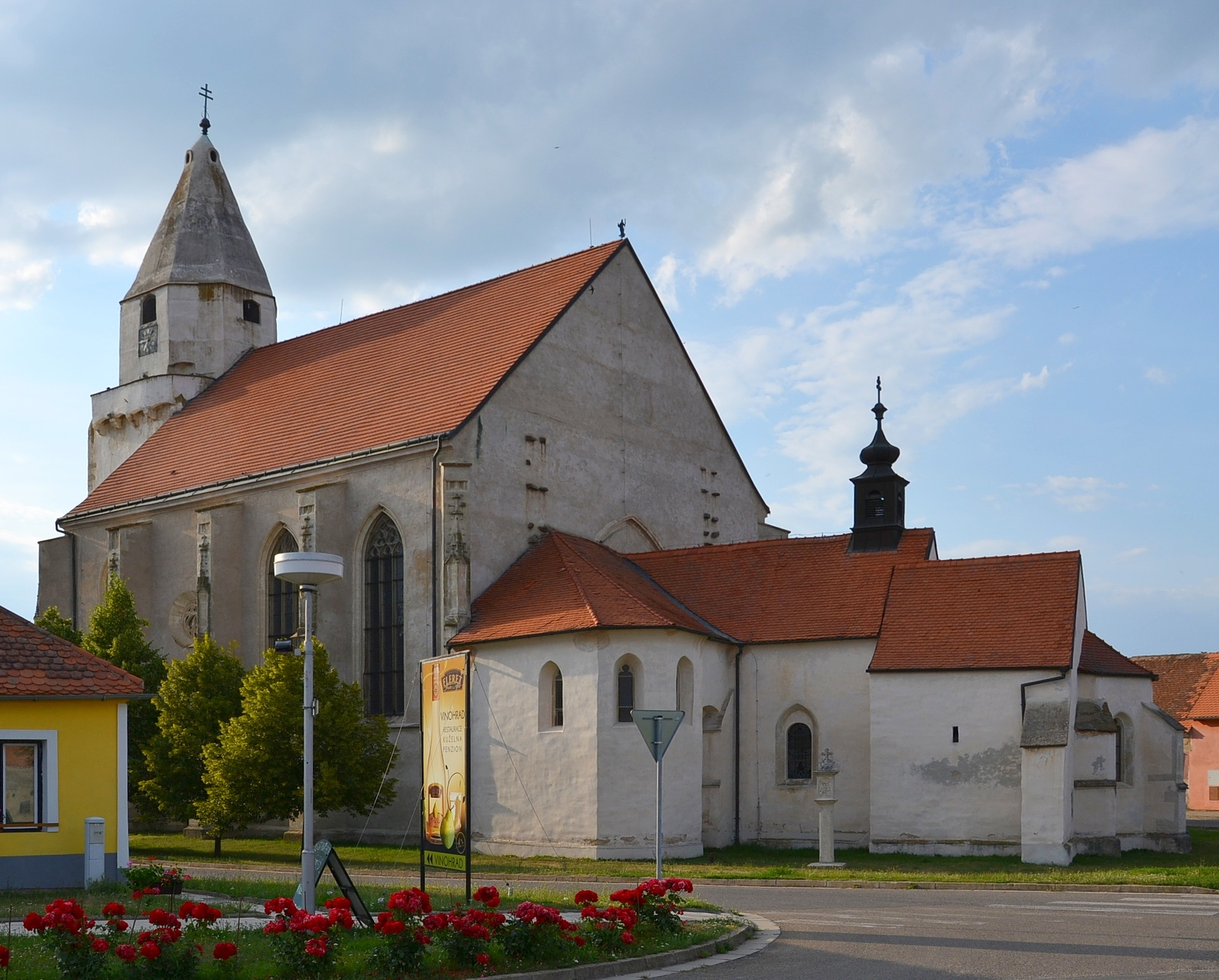 Hnanice in Znojmo District, Czechia. Church of Saint Wolfgang.